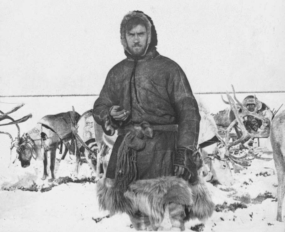 Photograph of the Finnish linguist and anthropologist Kai Donner (1888–1935) in Siberia.